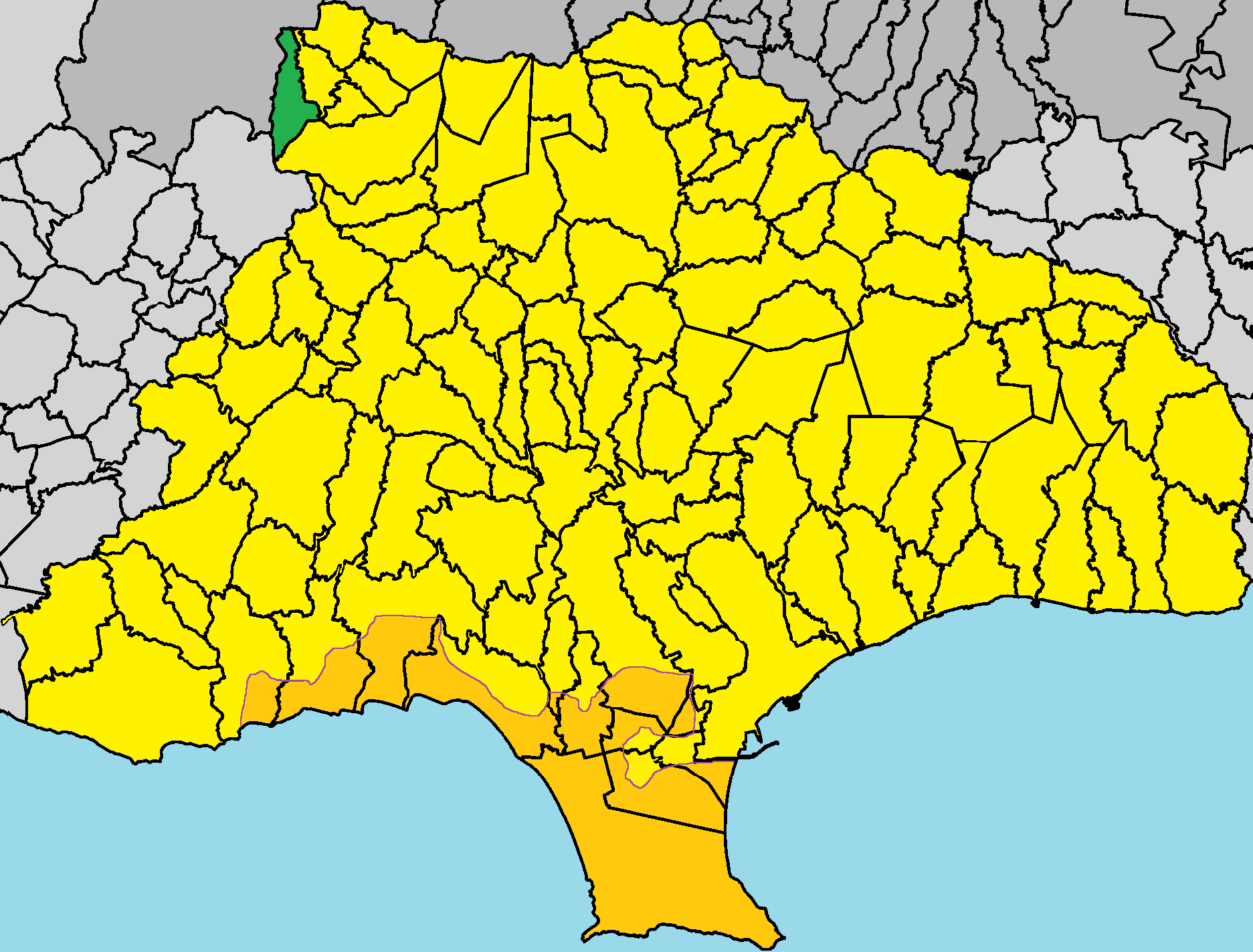 Kaminaria in Limassol District.